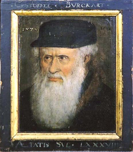 Christoph Burckhardt (1490 - 6 Oktober 1578), a member of the Basel patrician Burckhardt family